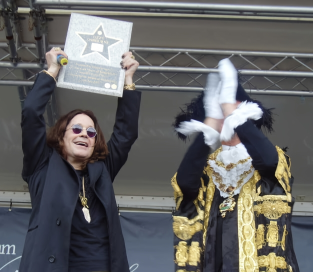 Ozzy Osbourne inducted into the Birmingham 'Walk of Stars'.